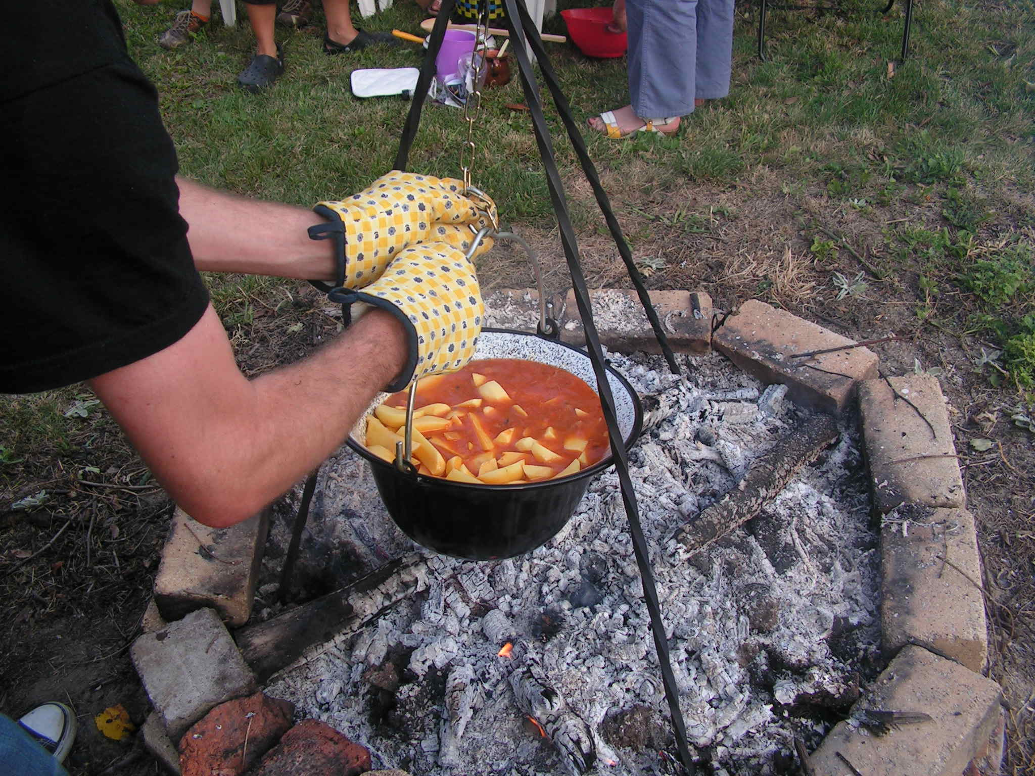 Potato in paprika - a Hungarian food